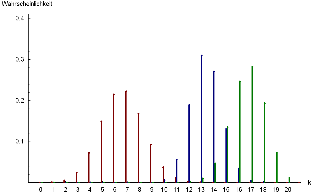 Hypergeometric Distribution